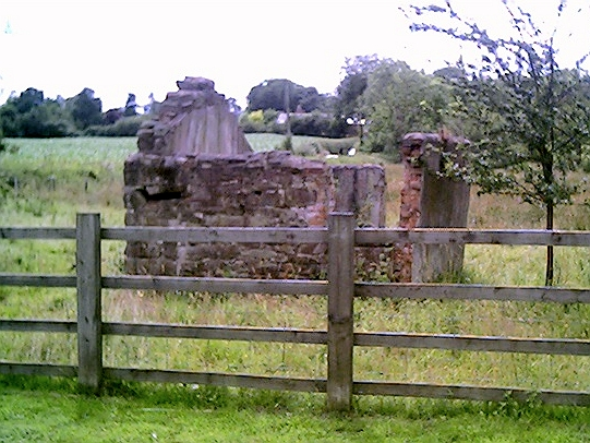 Site of the Battle of Rowton Moor 1645. This 17th Century building on the side of the A41 was used as a wound dressing station during the English Civil War Battle of Rowton Moor 24th September 1645